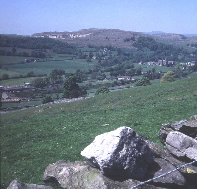 Hillside above Settle and the Langcliffe mills Looking north-west across the Ribble valley to Giggleswick Scar, with Ingleborough in the distance to the right. Plenty of sheep pasture on the hillside and hard to believe this was once a major industrial setting. Below in the valley are two weaving mills, originally powered by the ample water supply and later supplemented by steam power. To the left is Watershed Mill, now a shopping centre and a good place to buy a woolly jumper. To the right is the impressive High Mill, built in 1783 by George and William Clayton, and furnished with Richard Arkwright machinery. At the time it was one of the largest cotton mills in the country. Now the home of a packaging company.